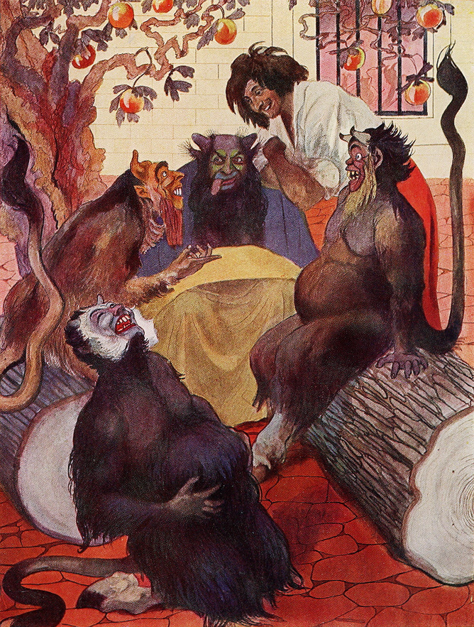 Illustration by Czech painter Artuš Scheiner for a Czech national fairy tale (from a collection by Božena Němcová) Česky: Ilustrace Artuše Scheinera k pohádce Boženy Němcové Čertův švagr